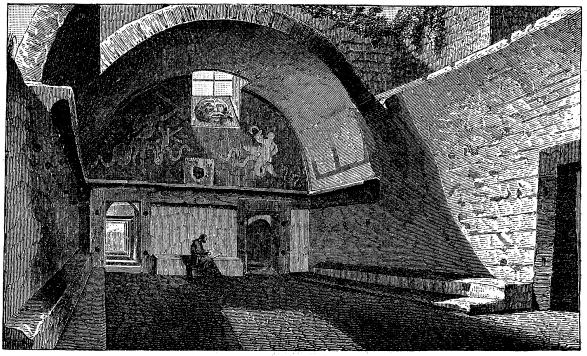 The apodyterium (dressing room) of the Old Baths at Pompeii.